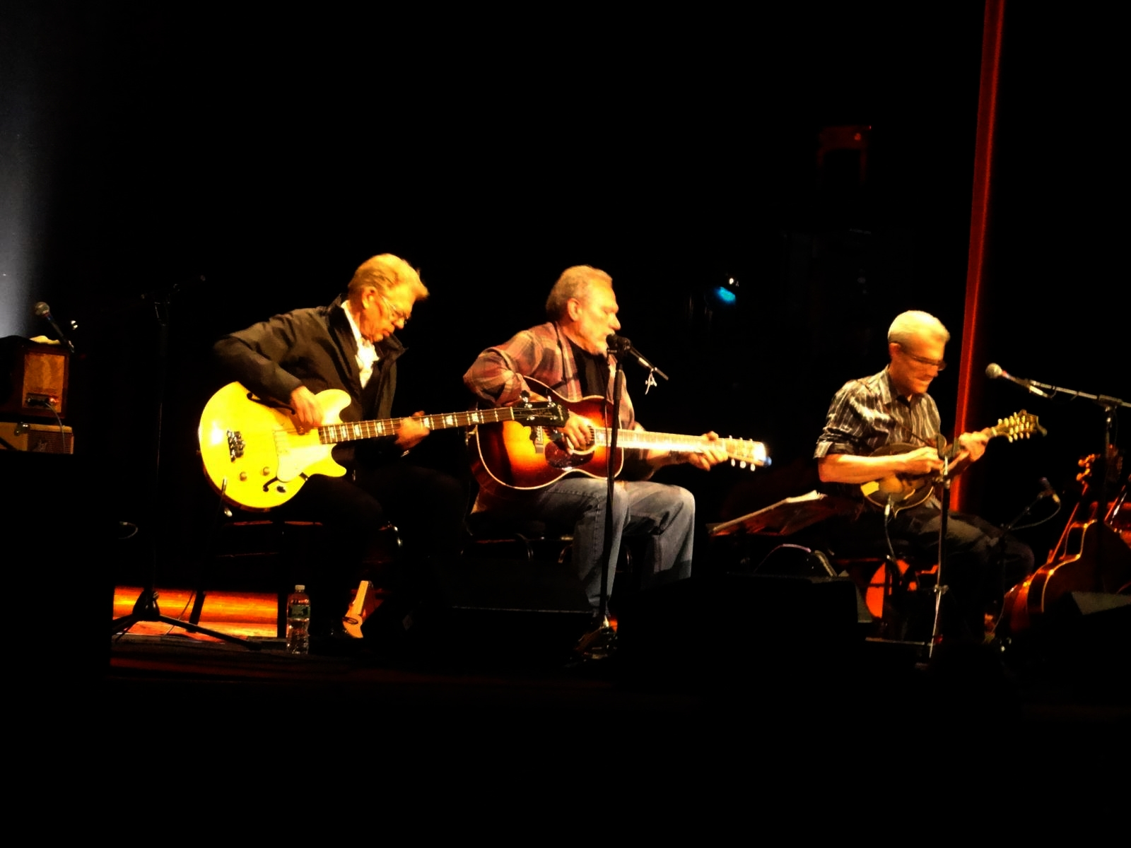 Hot Tuna---Jorma Kaukonen-guitar/vocals; Jack Casady-bass; plus Barry Mitterhoff-mandolin. Performed at The Somerville Theater near Boston, Mass. on June 18, 2013